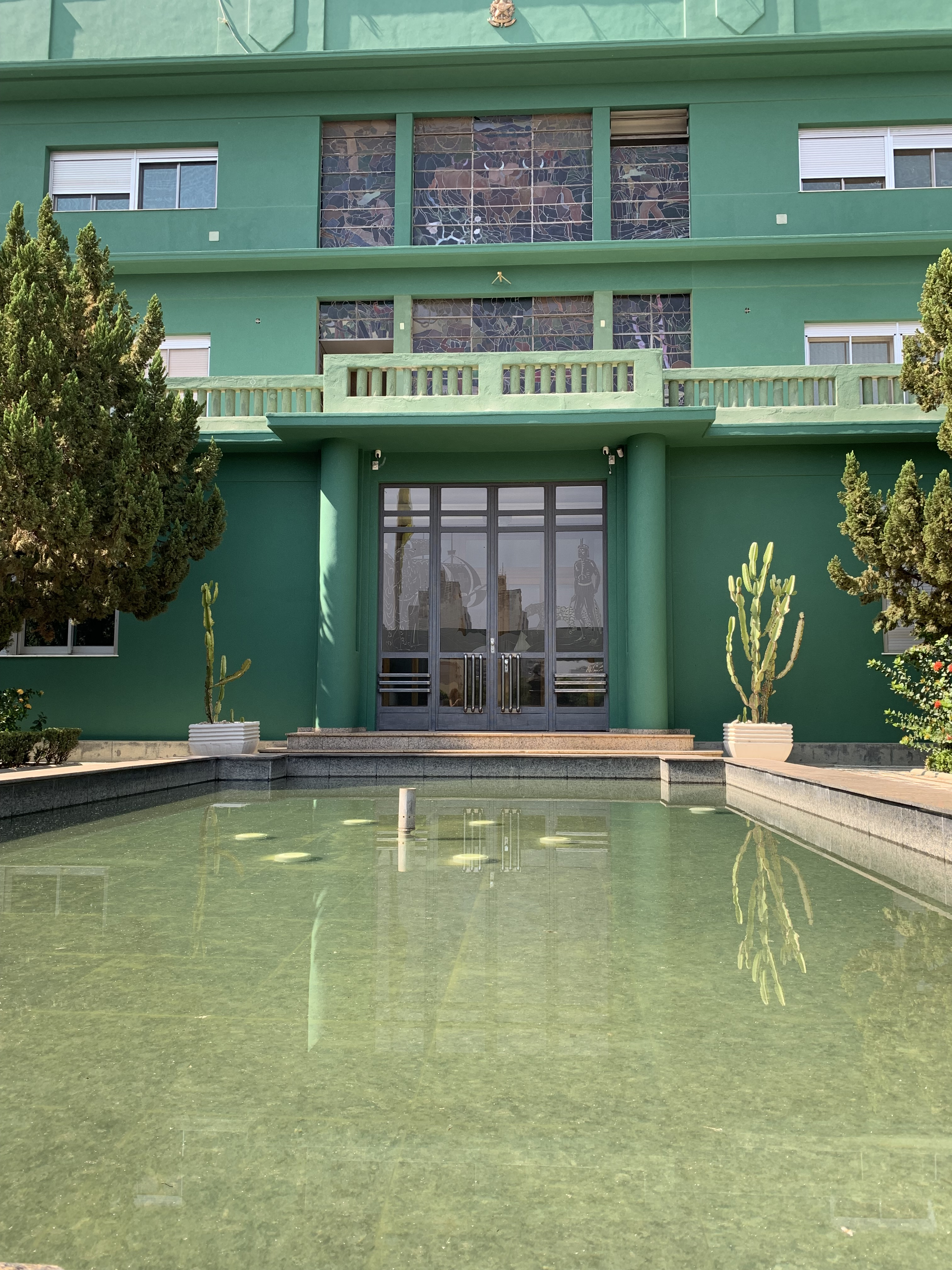 photo by: James Bates, 2000 source